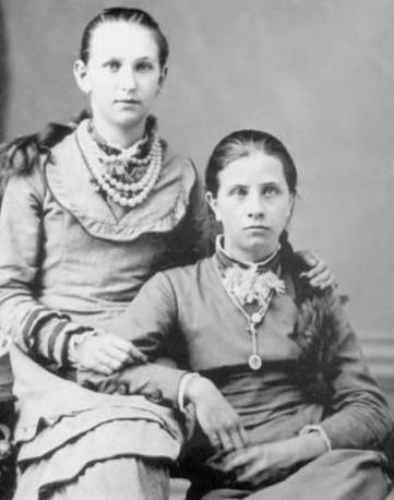 Annie (left) and Florence Deeks (right)